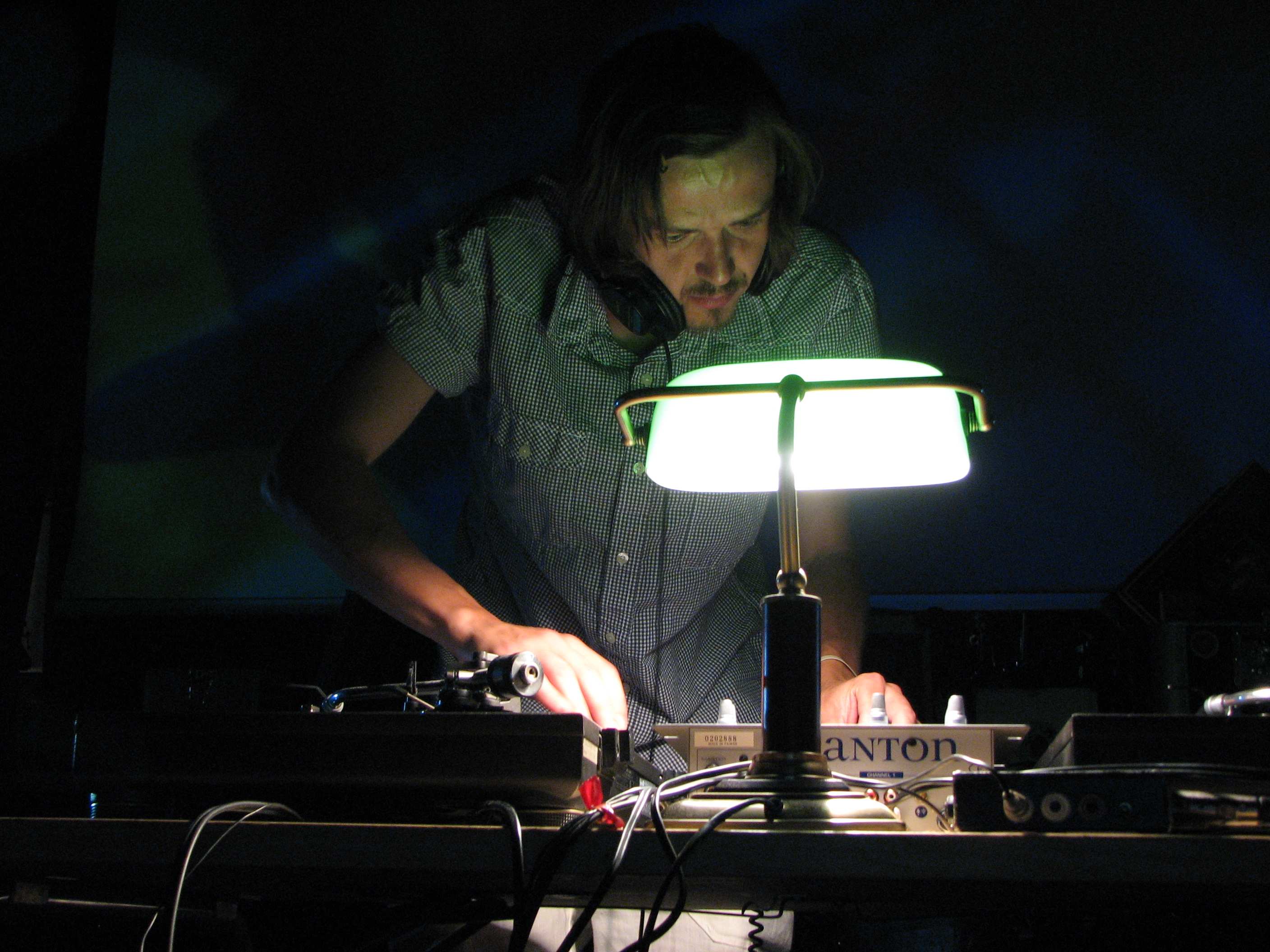 DJ Teppo "Teddy Rok" Mäkynen performing at Club Somethin' Else, during Jyväskylä Summer Jazz 2007